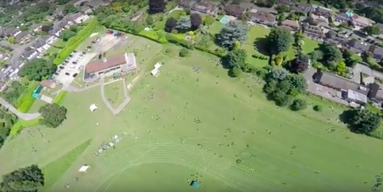 Aerial view of Walch Memorial Playing Fields, Sutton Grammar School